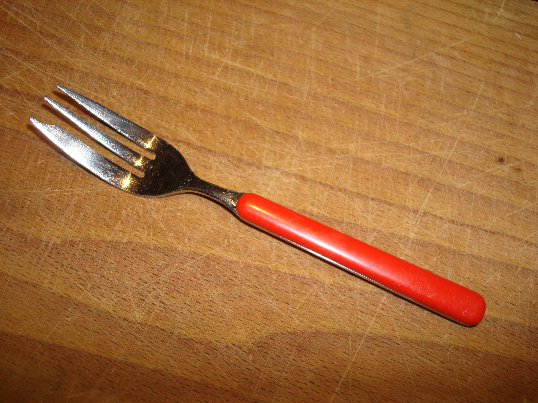 Cake fork